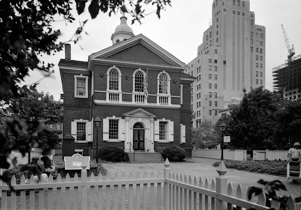 North (front) facade of Carpenters' Hall, Philadelphia, Pennsylvania.